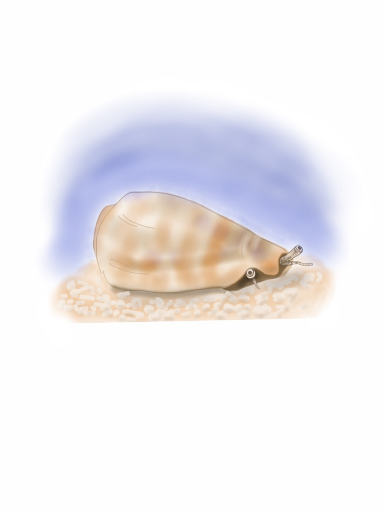 illustration, tiger conch, strawberry conch, eyes and sensory tentacles extending from shell, on sandy substrate